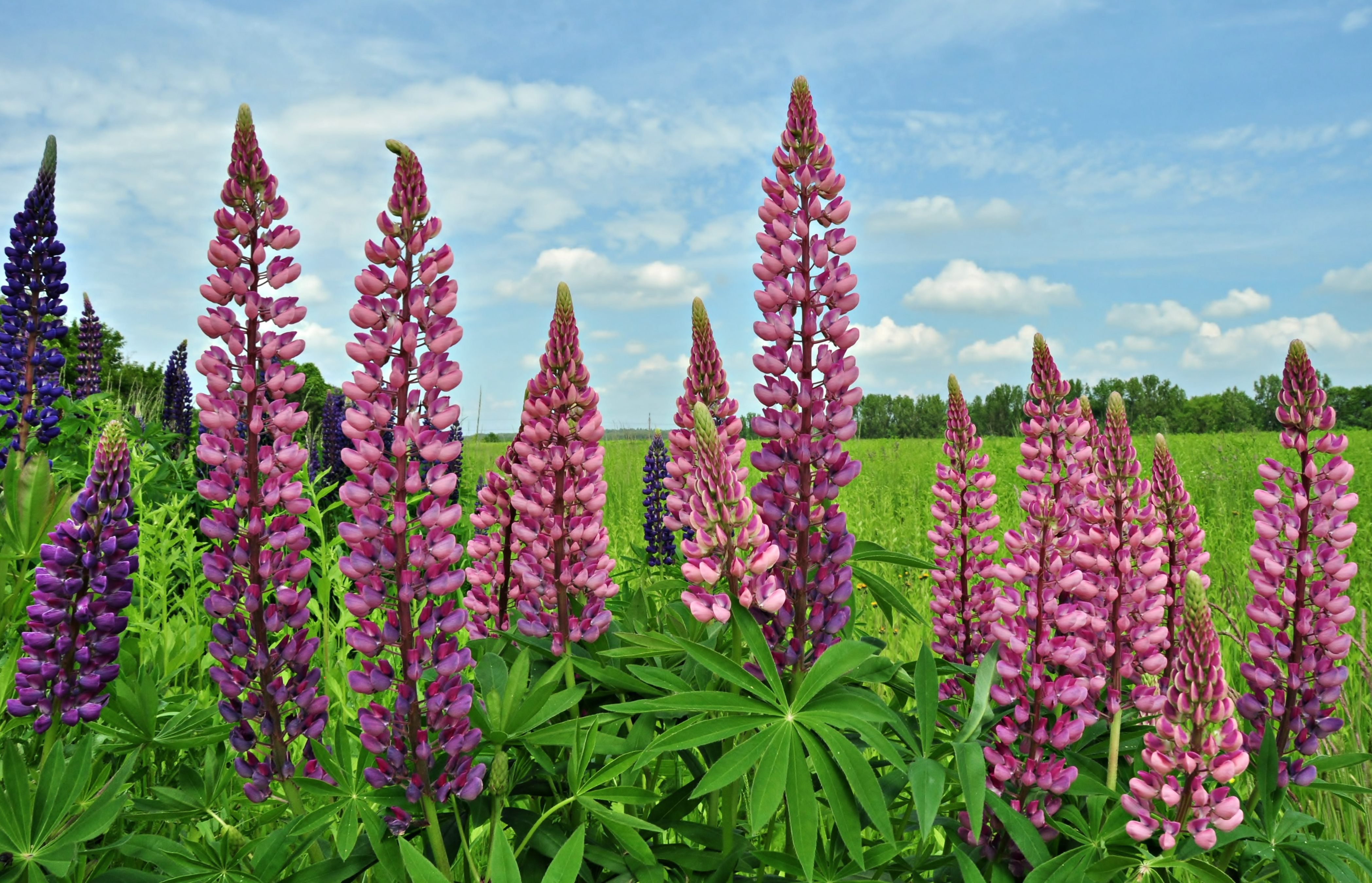 Lupin flowers on the side of the Highway M10 (Ukraine) near Stradch